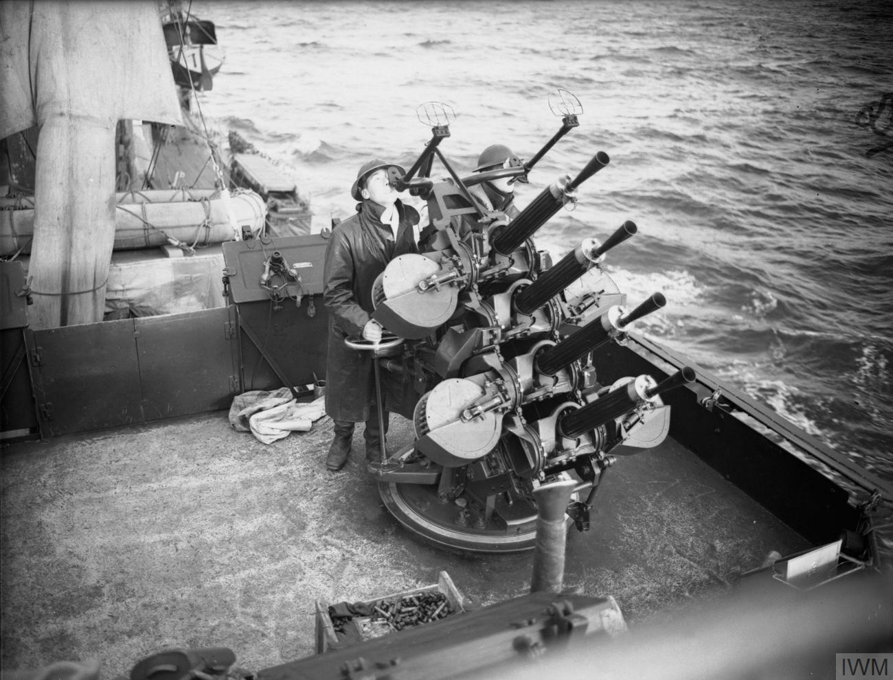 IWM caption : "Crew members aboard the destroyer HMS VANITY manning the 0.5 inch Vickers water-cooled machine gun in quadruple Mark III mounting". Comment : note how ammunition drums for top and third gun are on right, drums for second and bottom gun are on left.